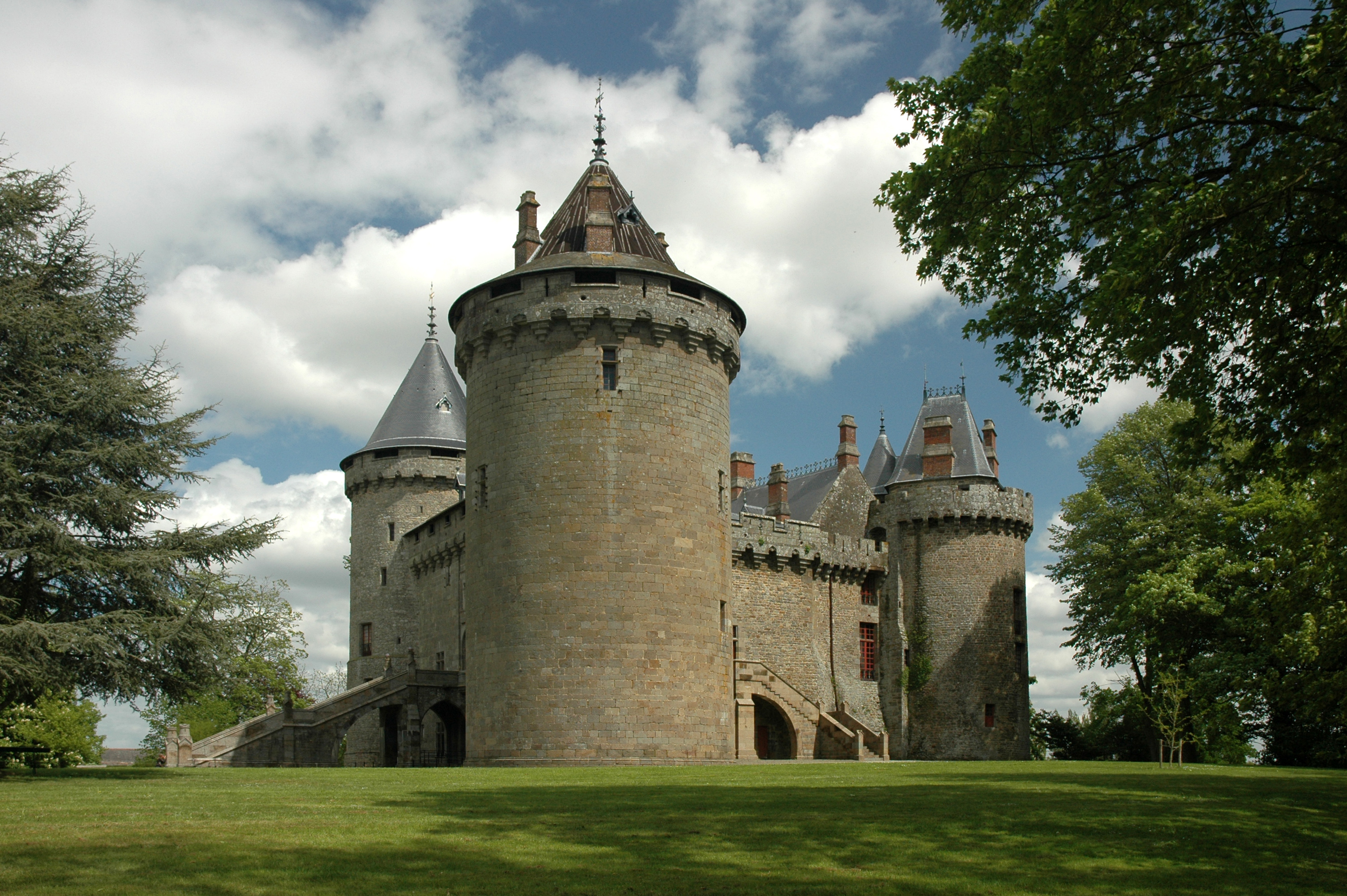 Castle of Combourg